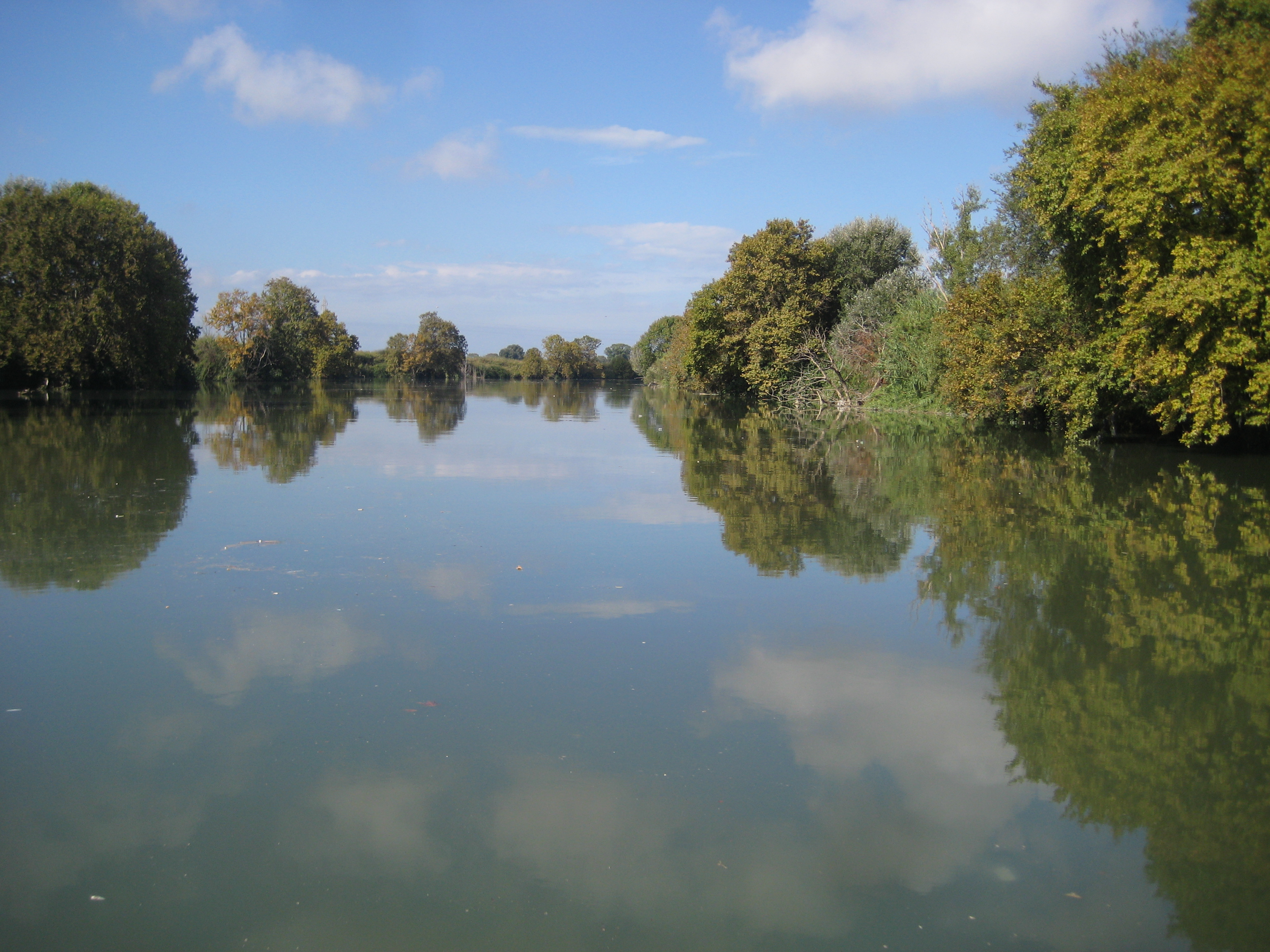 A view of the Tiber river, south of Rome, Italy.